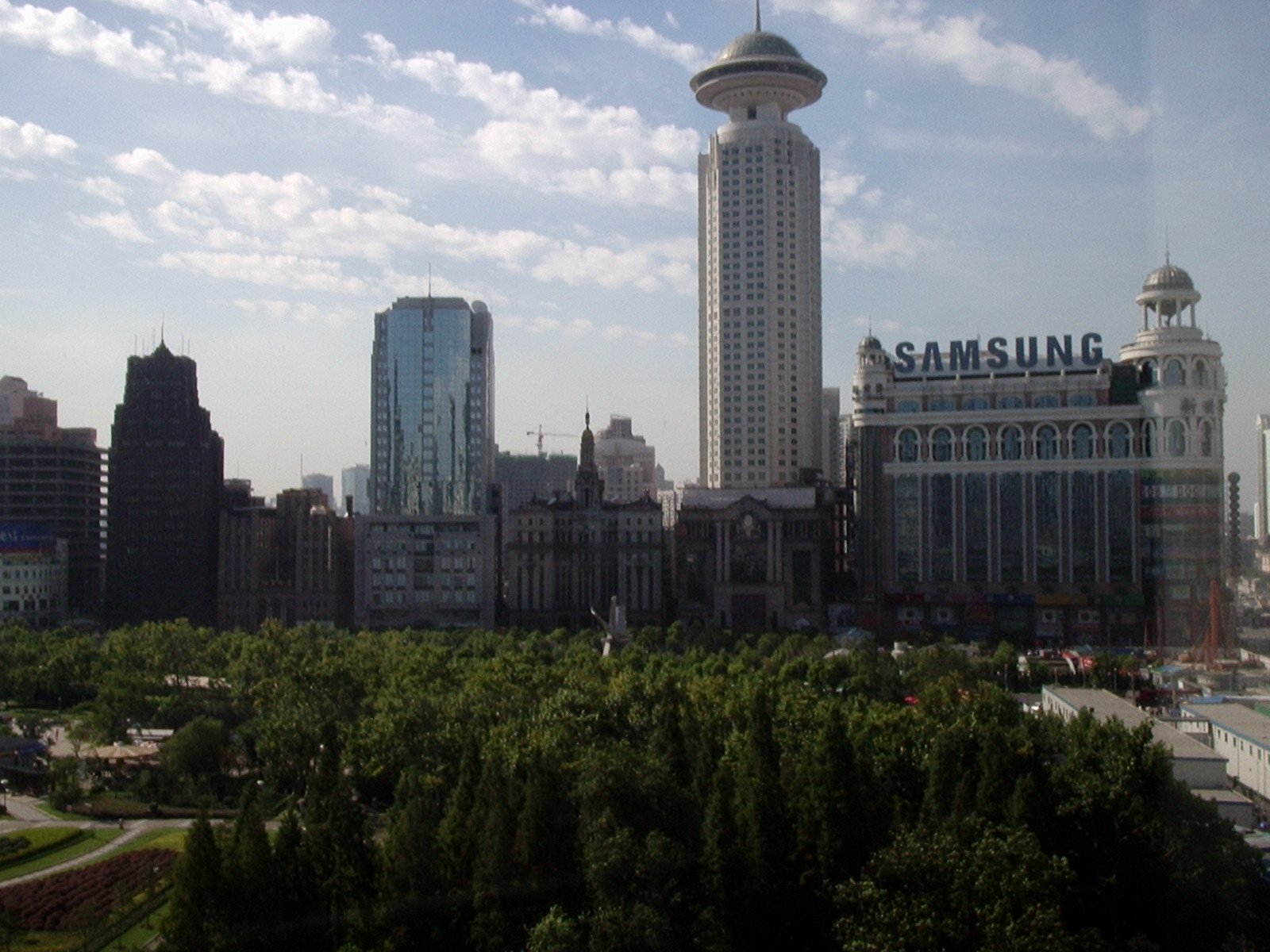 An aerial view of People's Park, Shanghai, taken from inside the cafeteria in the Shanghai Urban Planning Exhibition Hall.